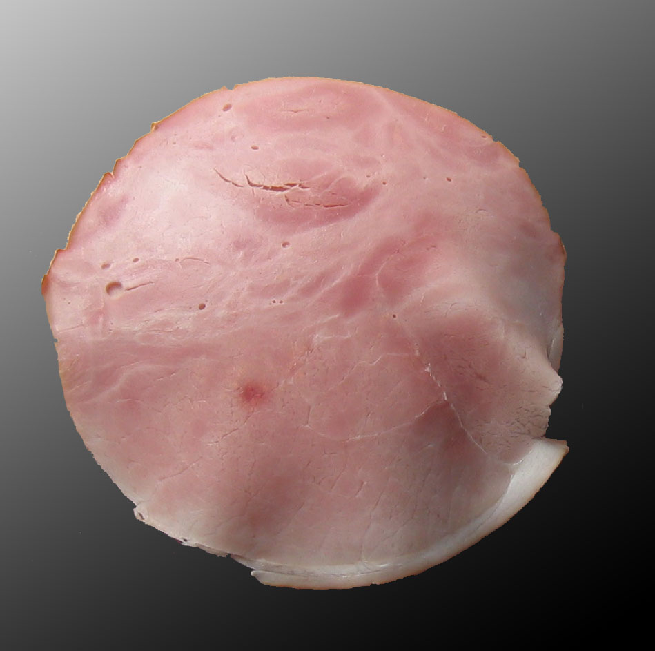 Ham